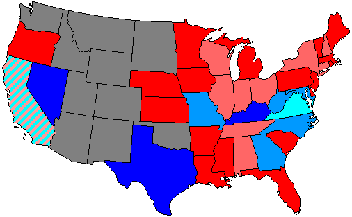 Summary of party control of U.S. house seats in the 43rd United States Congress following election. Stripes indicate a tie between two or more parties. Legend: 80.1-100% Democratic seat majority 60.1-80% Democratic seat majority 60% or less Democratic seat plurality 60% or less Republican seat plurality 60.1-80% Republican seat majority 80.1-100% Republican seat majority